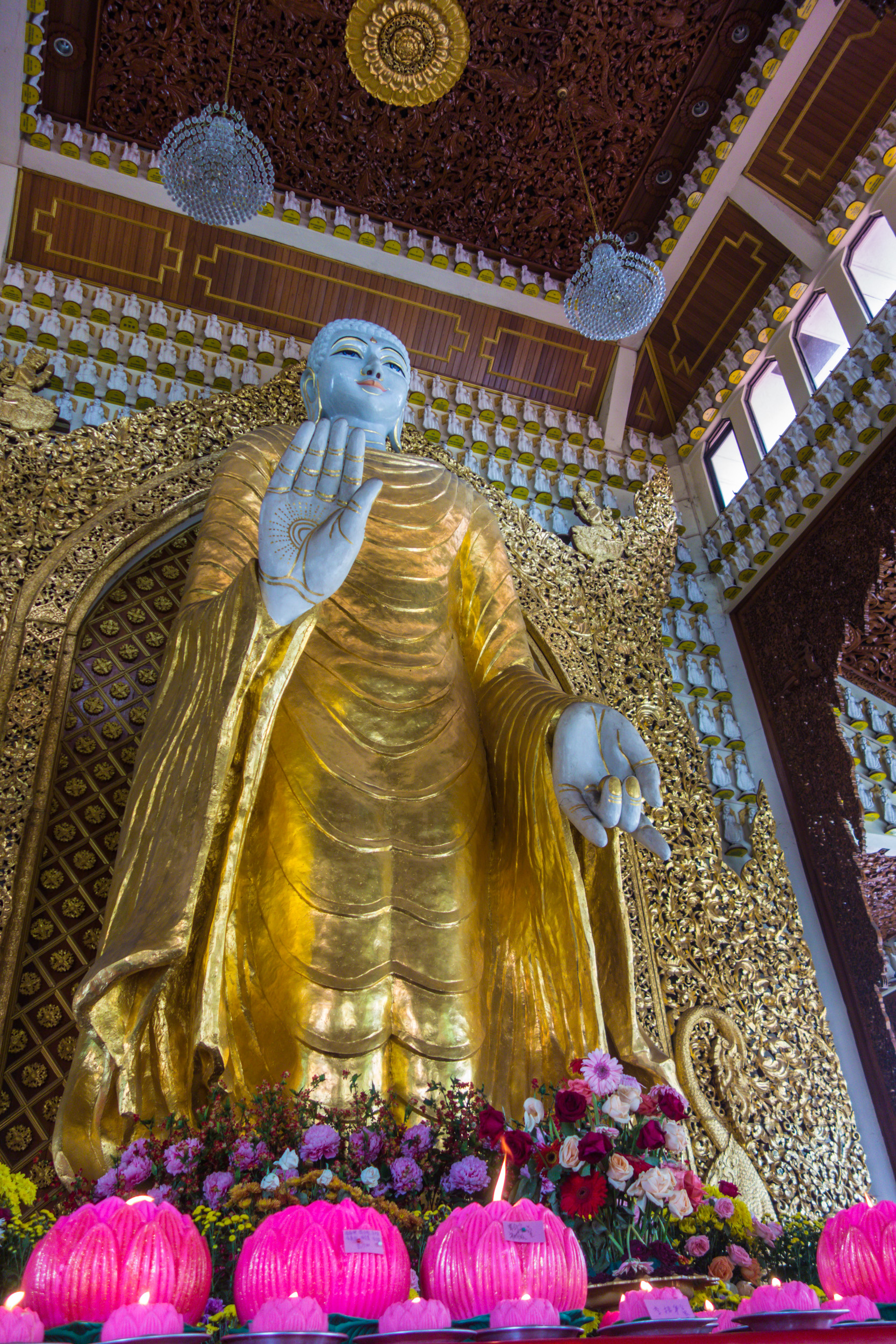 Penang - Part 2 - Temples